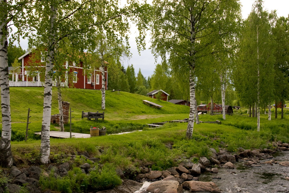 Svensbylijda in Svensbyn, Piteå Municipality, Norrbotten County, Sweden